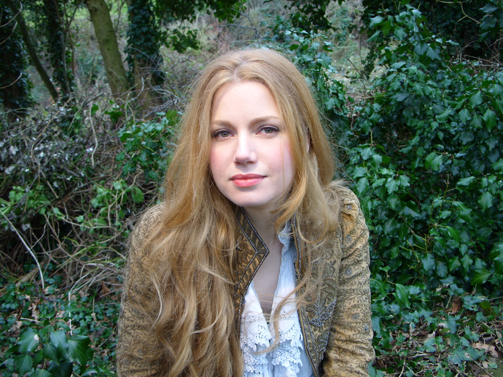 Mary Epworth on the set of her 'Black Doe' video by Andrew Batt. Clothes by Bambi Ballard